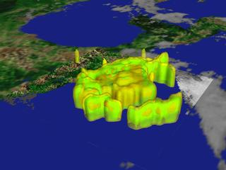 Hurricane Adolph satellite image taken by the TRMM satellite (a cooperation of NASA and the Japanese Aerospace Exploration Agency).